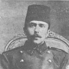 Colonel Sülayman Fethi Bey (1877 - May 15, 1919)